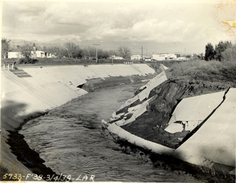 Los Angeles River - flood of 1938 - confluence of Tujunga Wash and LA River Los Angeles River - View above confluence of Tujunga Wash (West Channel) with Los Angeles River, showing failure of Gunite levee on both banks. River mile 37.8. This image is from the Report on Engineering Aspects, Flood of March 1938 by the U. S. Engineer Office in Los Angeles and compiled in August 1938. The Los Angeles River and the river's tributaries flooded after a very wet rainy season and one particularly bad storm on March 1-3, 1938. The Report is a part of the Special Collections at CSU, Northridge and gives an extensive account of how different river channels reacted to the flood. After this flood, the Army Corps of Engineers set about insuring extensive flooding would not cause such extreme damage in the future. Image 28 in report. Black and white photograph. 3.5 x 4.5 in.